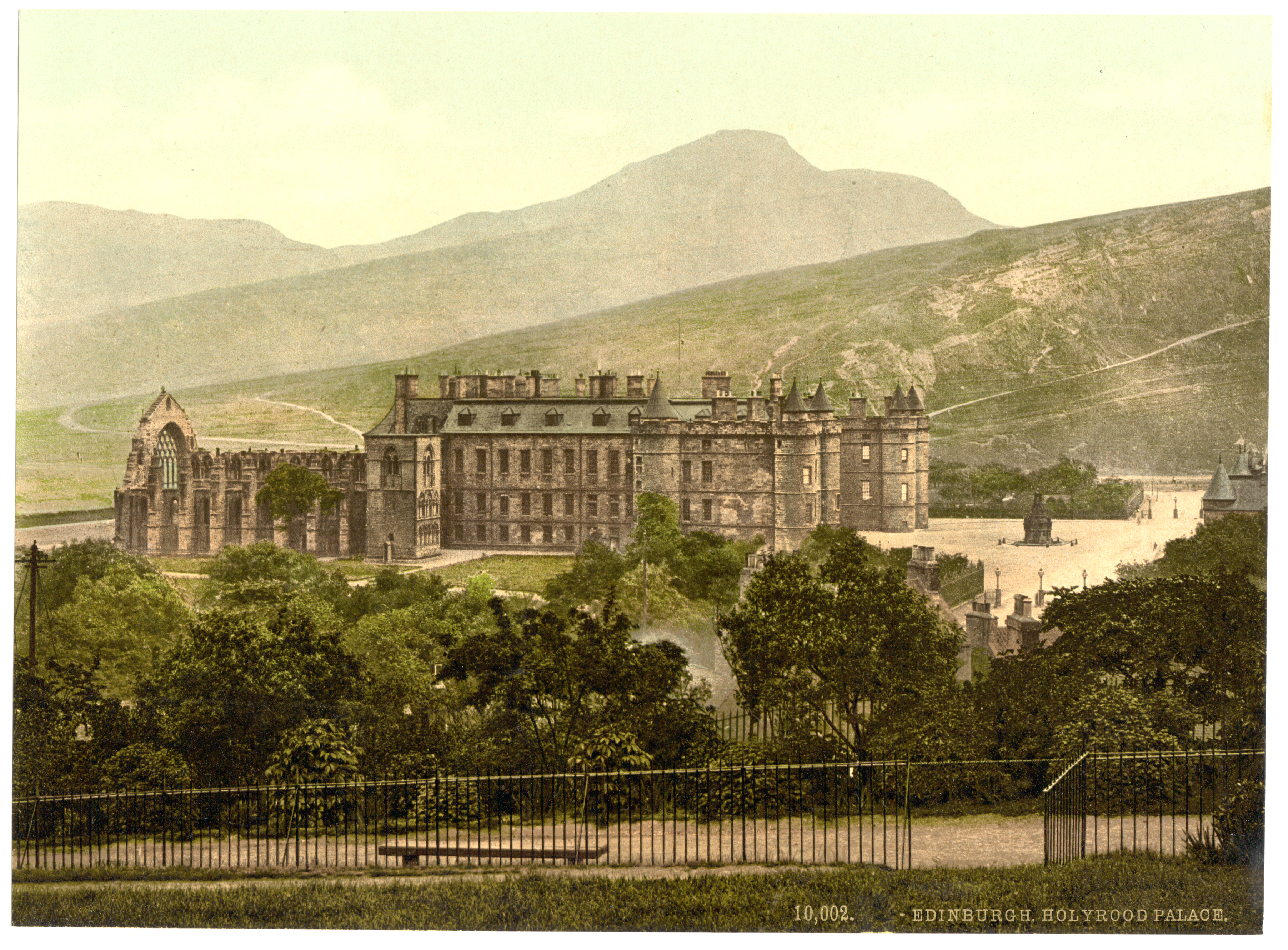 Photochrom print of Holyrood Palace in Edinburgh, Scotland, by an unknown photographer. It could possibly have been taken from nearby Calton Hill by James Valentine between 1890 and 1900. The scan was made from a color photochrom.